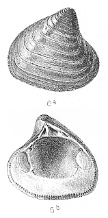 Astarte trigonata (right valve) - Fossil bivalve from Pliocene deposits near Antwerp (Belgium)